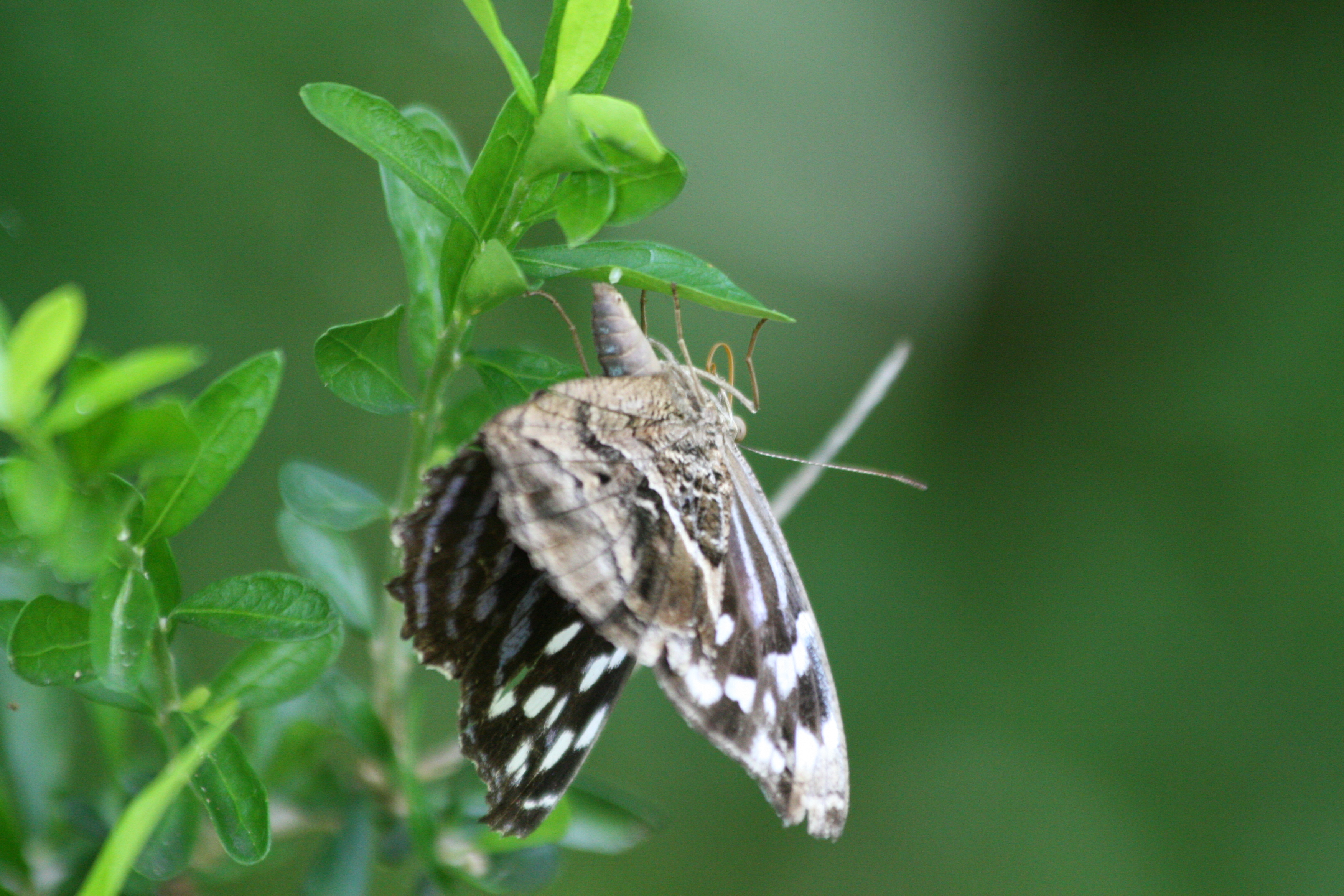 Mexican bluewing (Myscelia ethusa) ovipositing on Adelia vaseyi leaf.